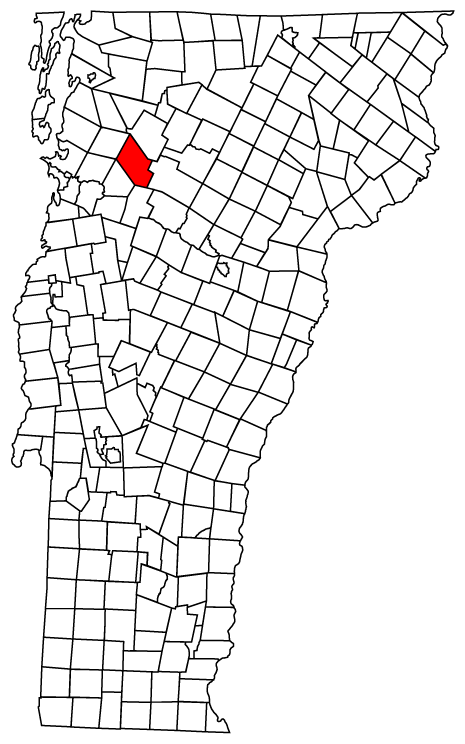 Map of Vermont towns with Underhill highlighted